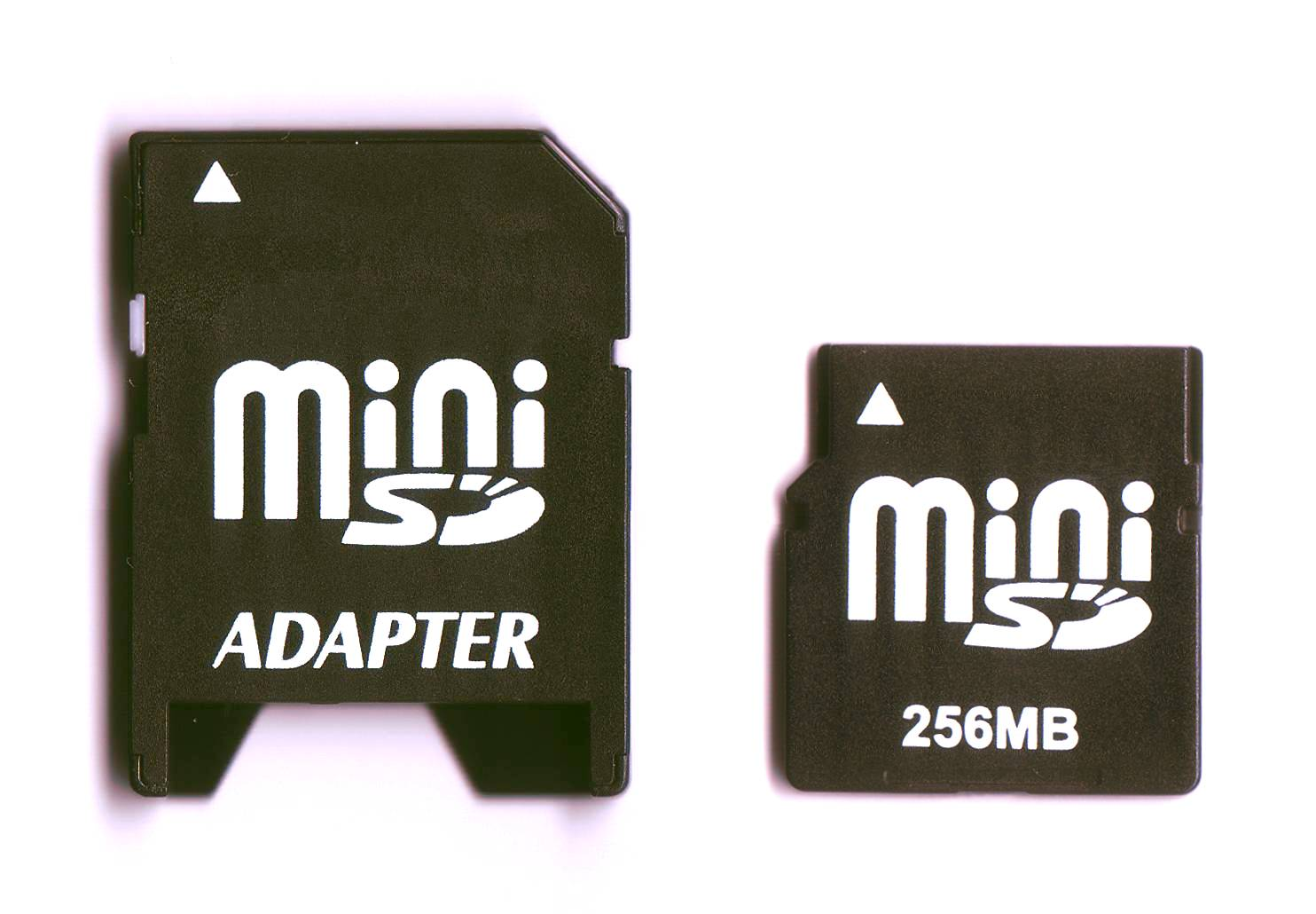 miniSD Card (right) with miniSD Adapter (left)